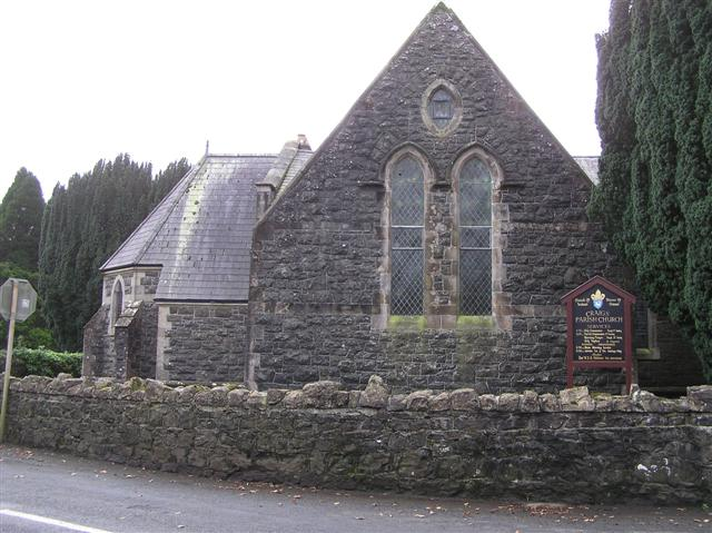 Craigs Parish Church of Ireland Looking east